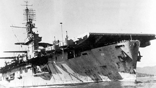 The U.S. Navy escort carrier USS Windham Bay (CVE-92) underway in 1945, with what appear to be three Martin PBM Mariners on deck.